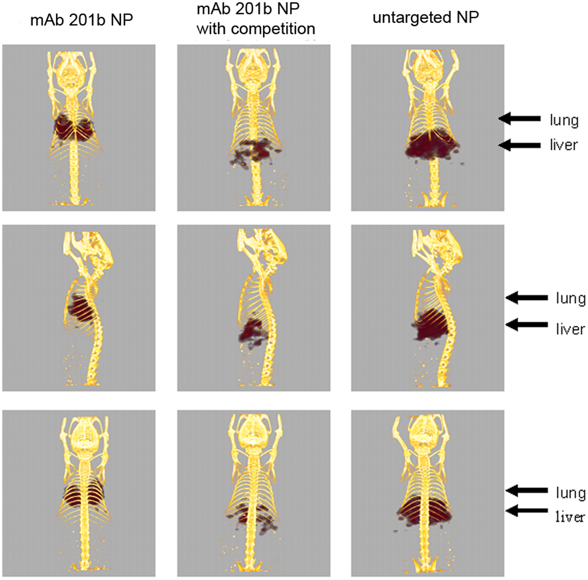 Single-photon emission computed tomography/CT images 1 hour post-injection into a mouse of 80 µCi of gold-coated lanthanum/gadolinium phosphate nanoparticles containing the alpha-emitting radionuclide actinium-225 (specifically:{La0.5Gd0.5}(225Ac)PO4@GdPO4@Au-mAb-201b)